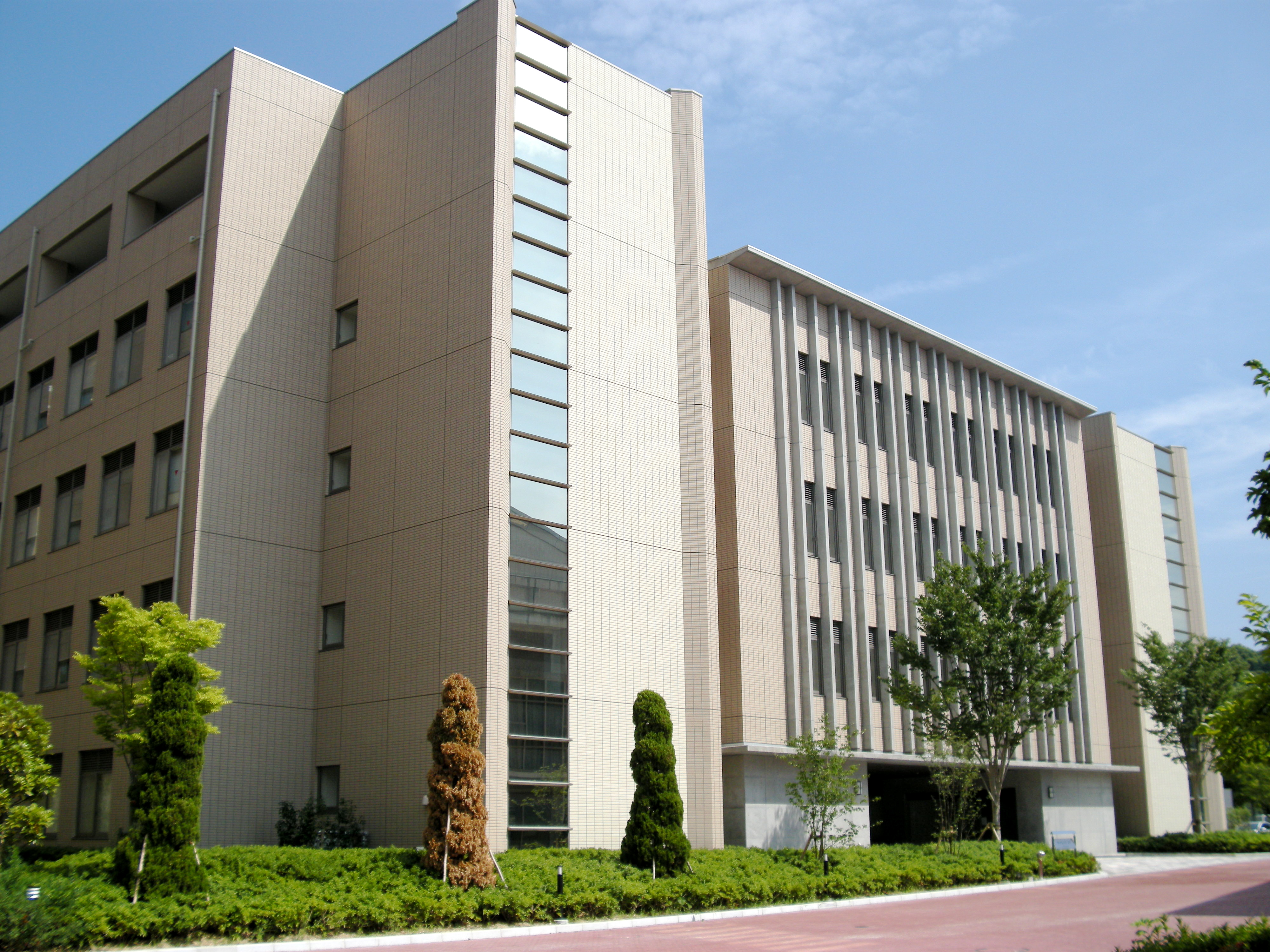 Science Core, (Biwako Kusatsu Campus, Ritsumeikan University, Japan)